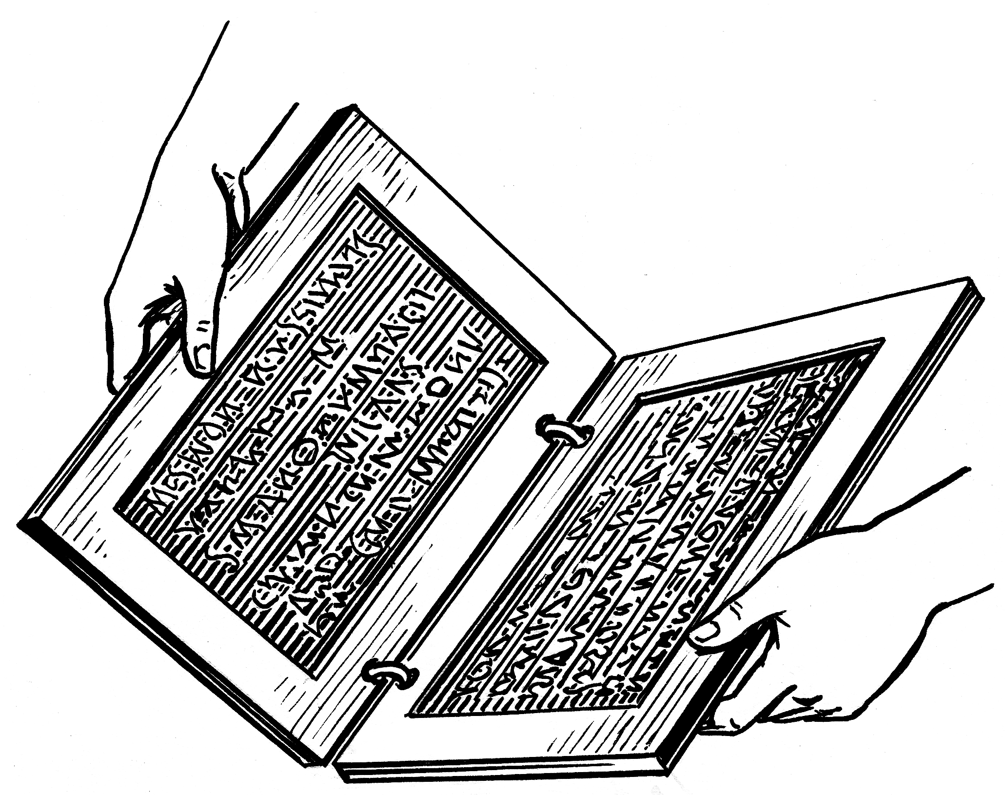 Line art drawing of a diptych.